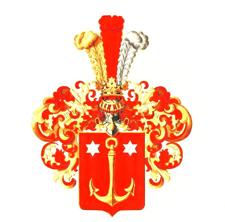 Coat of Arms of Vannovski family